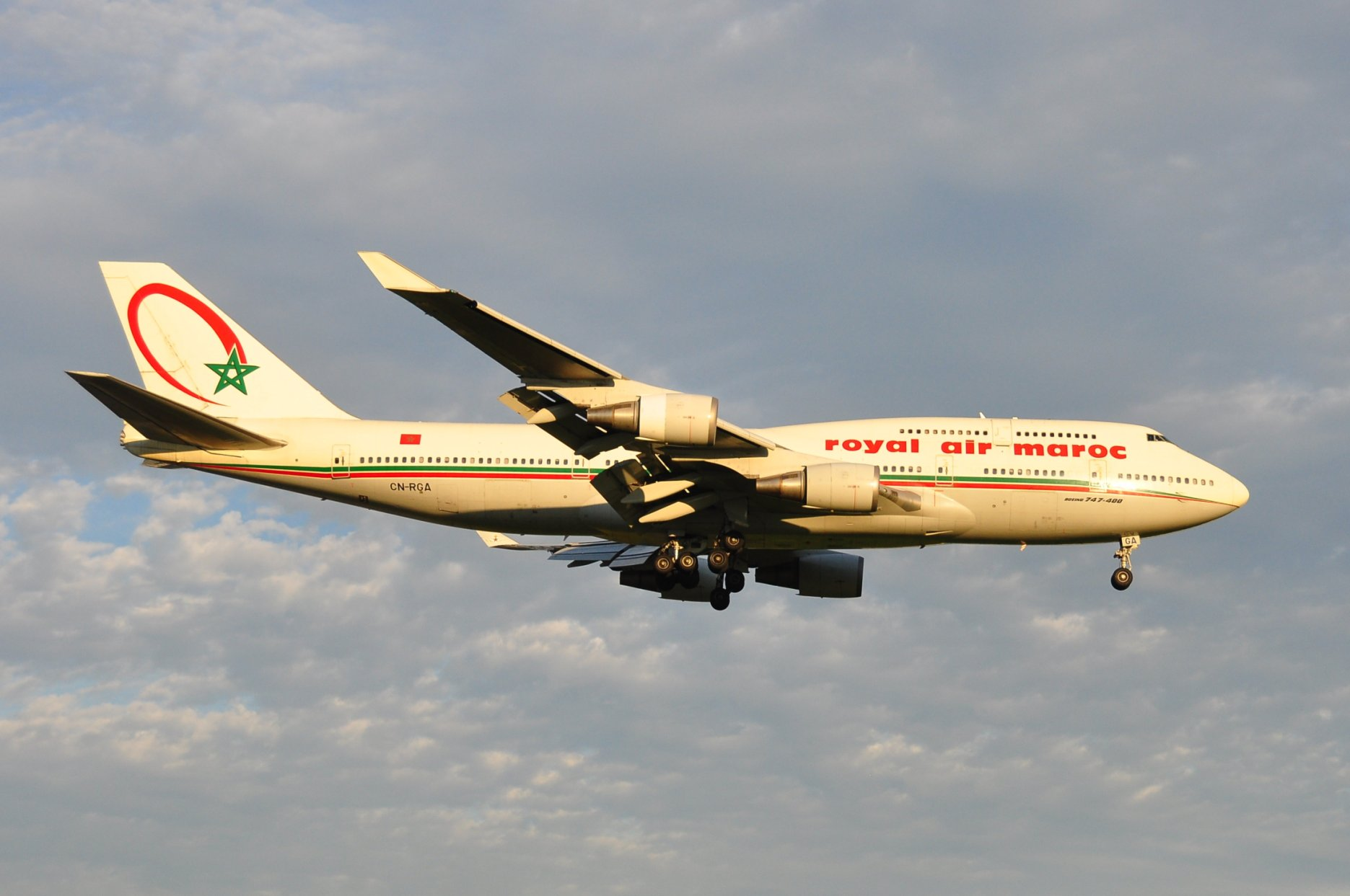 Royal Air Maroc Boeing 747-400